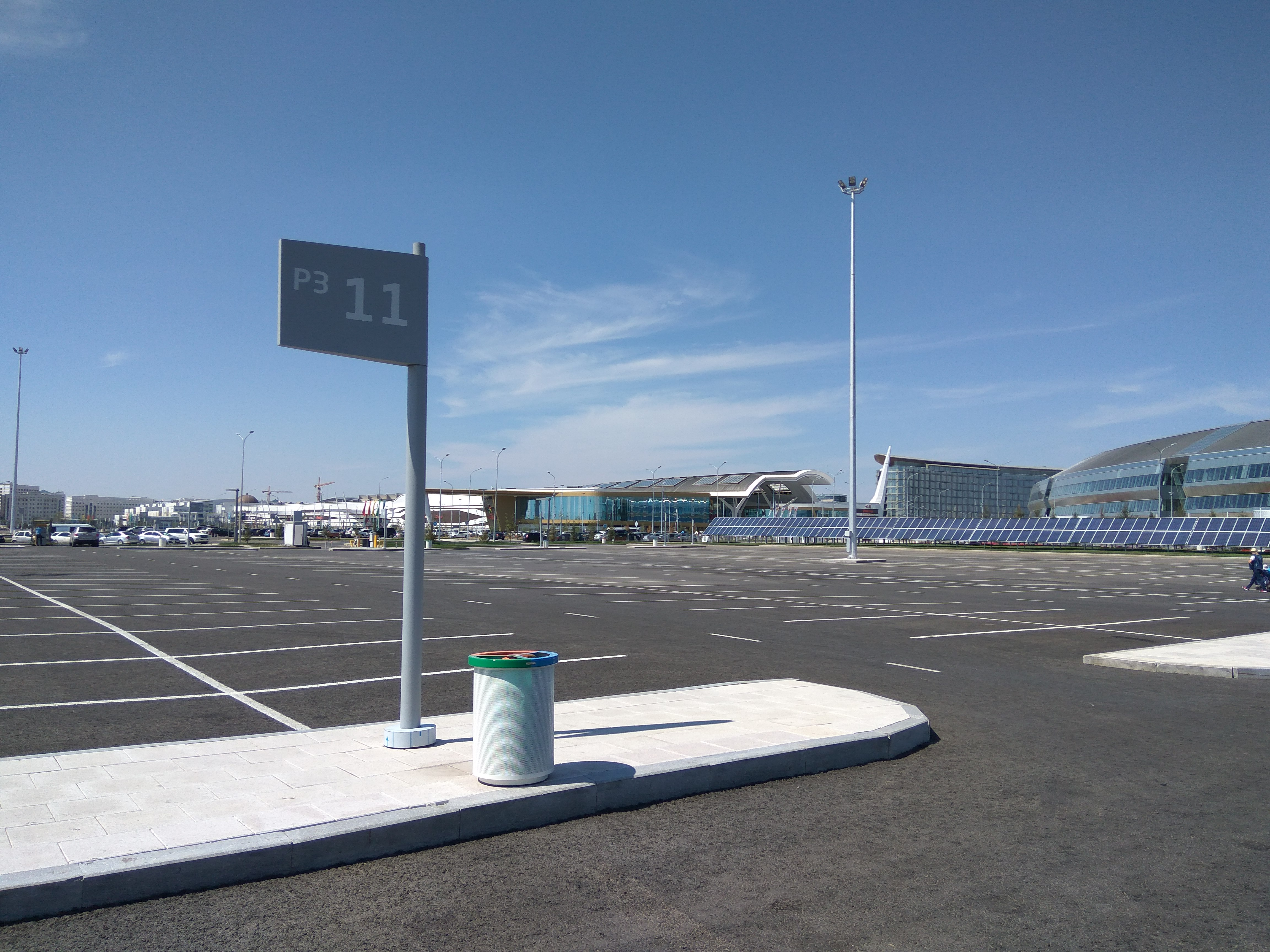 Expo 2017 Car Park